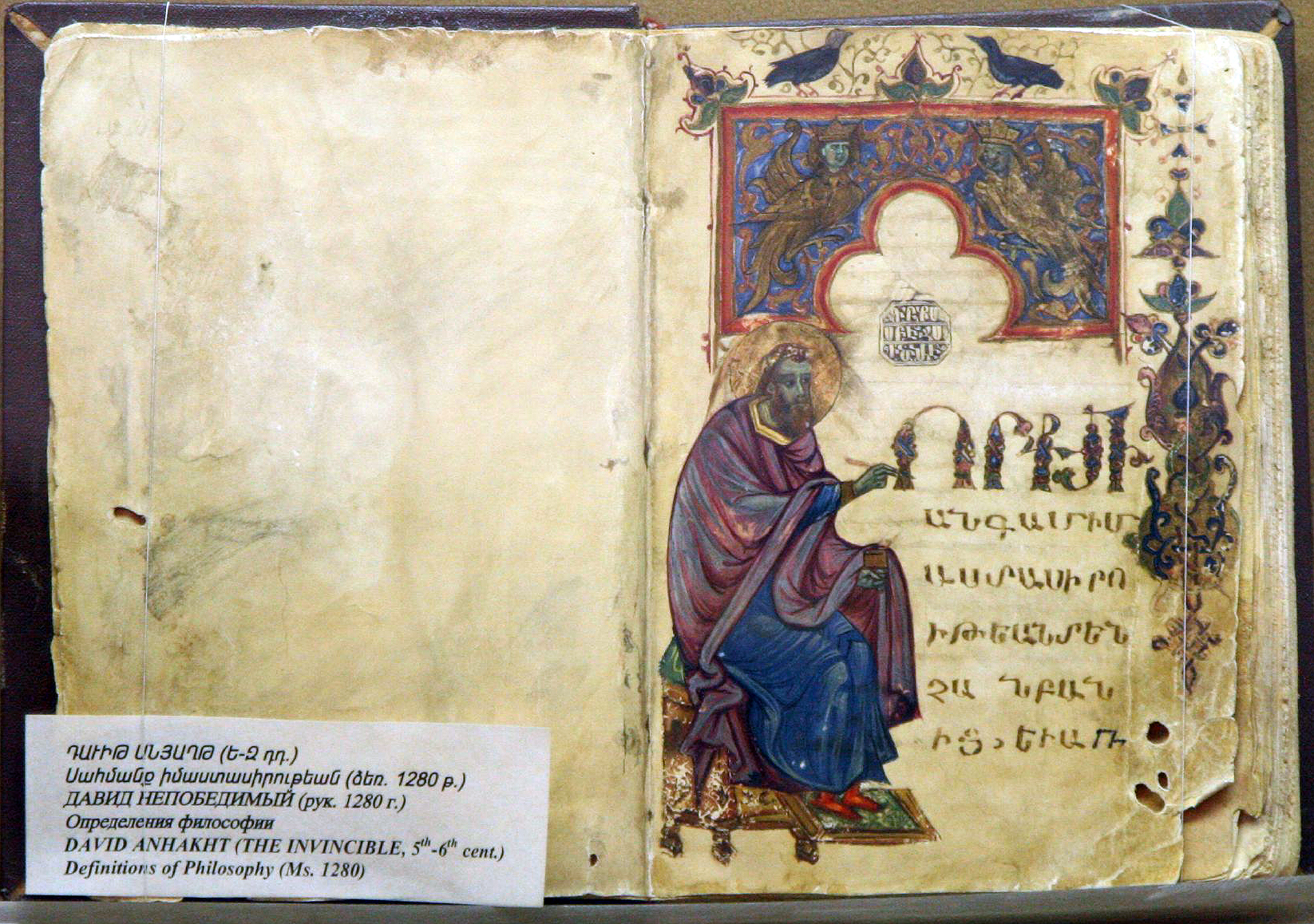 Manuscript (Definitions of Philosophy).